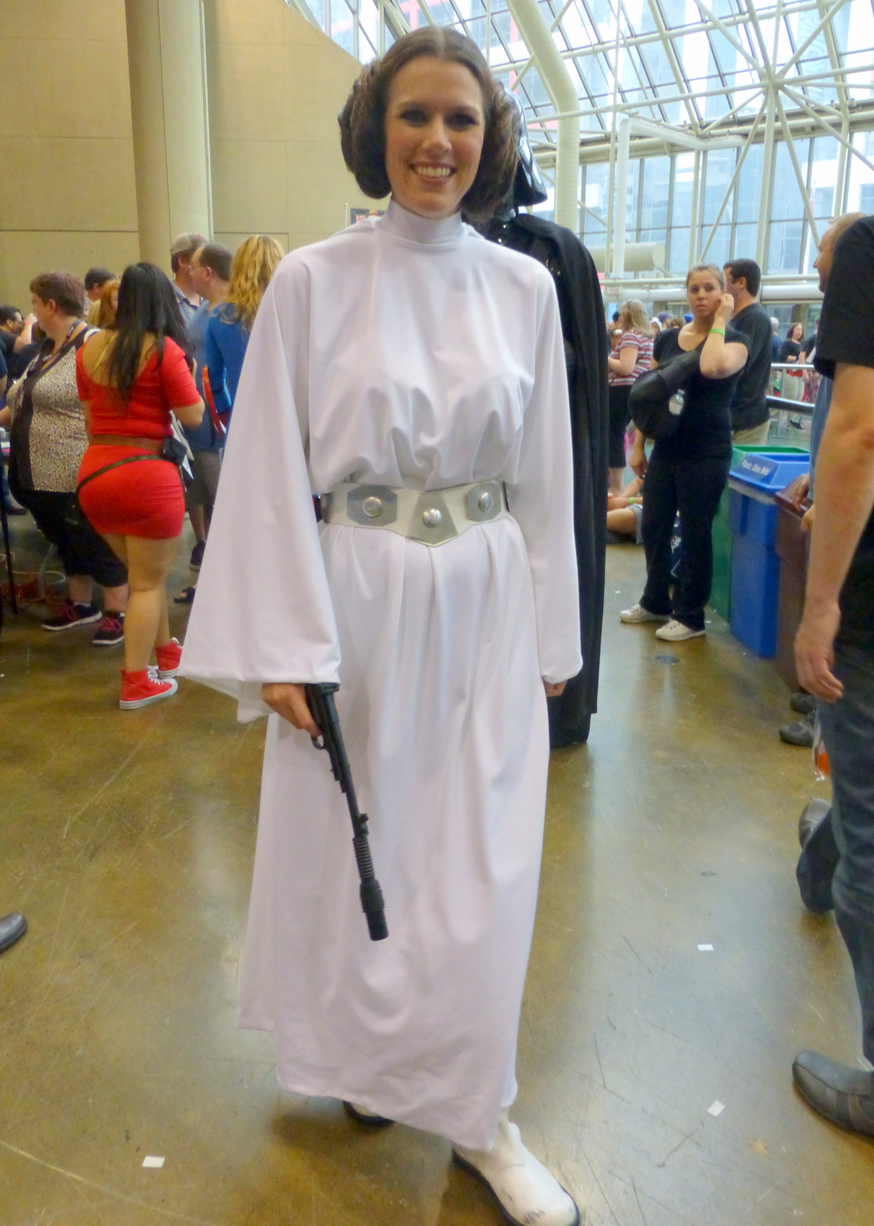 Princess Leia Cosplay at Fan Expo Canada in Toronto in 2014.